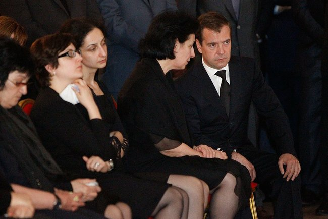 At the ceremony of paying last respects to President of Abkhazia Sergei Bagapsh. Dmitry Medvedev expressed his condolences to Mr Bagapsh’s widow, Marina Bagapsh.